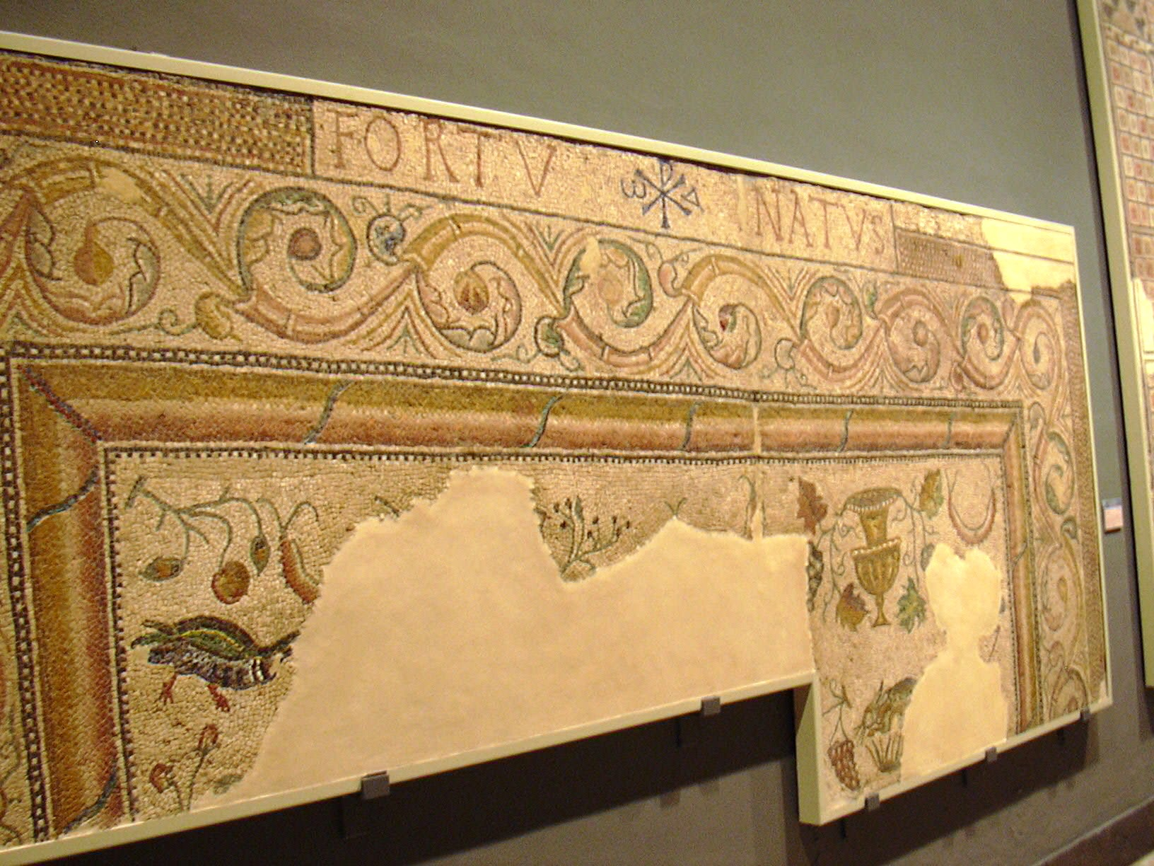 Fortv + Natvs (4th c. AC). Villa Fortunatus. Mosaic.